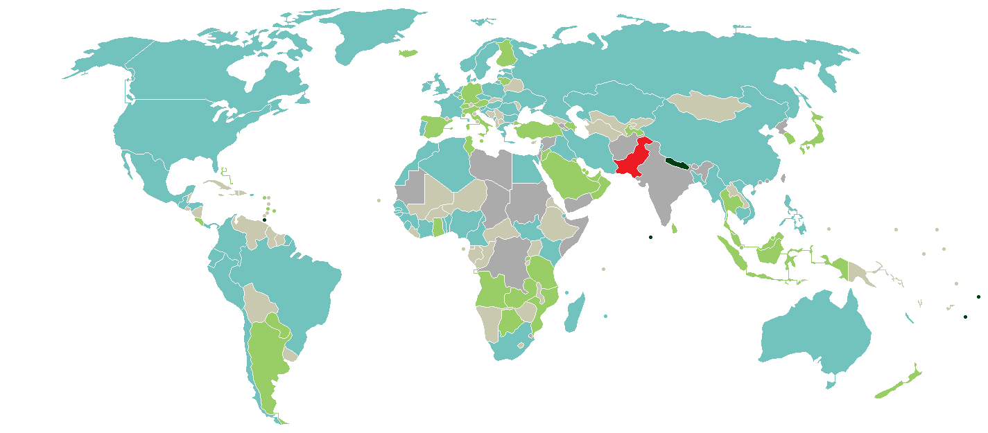 Visa policy of Pakistan Pakistan Visa-free entry; eligible for all electronic visas Electronic travel authorization for visa on arrival for tourism and business purposes and online visa Electronic travel authorization for visa on arrival for business purposes and online visa Online visa application only Visa required in advance